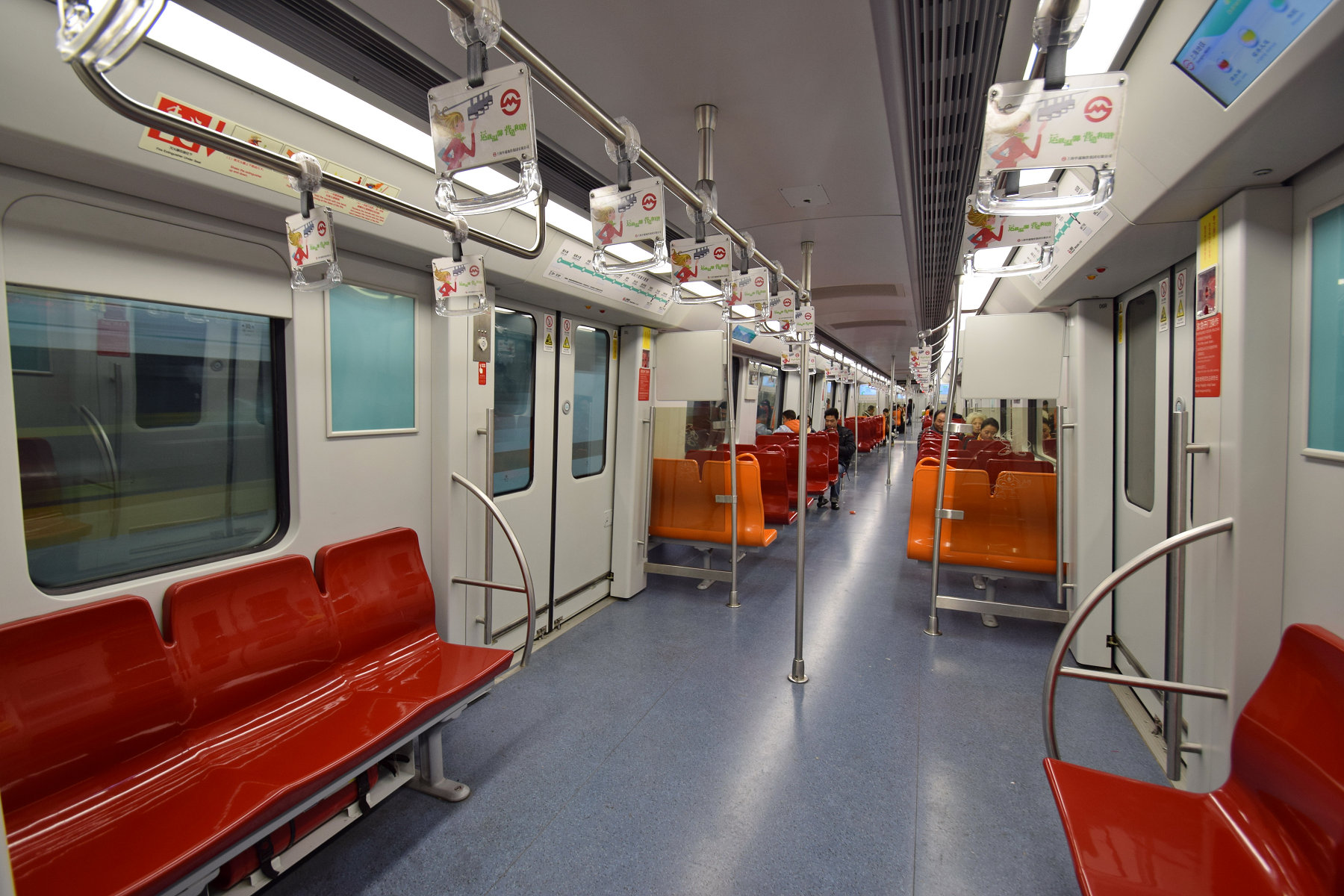 Interior of Shanghai Metro Line 16 AC19 Train